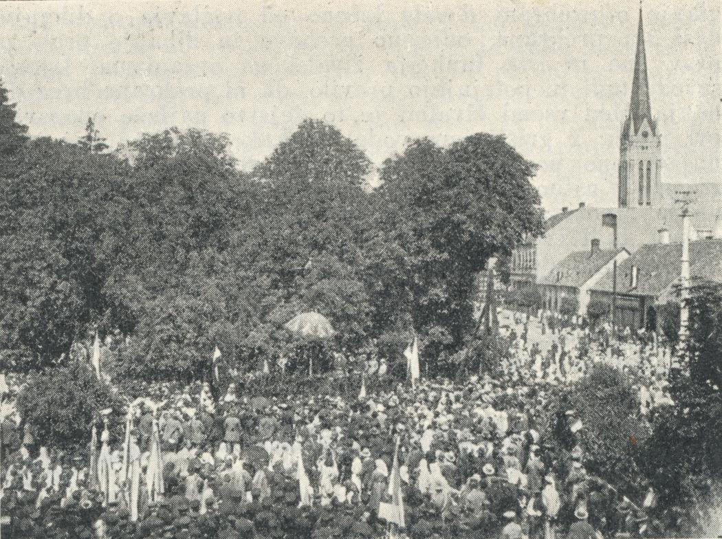 Celebration of the 10th anniversary of Prekmurje's accession to Slovenia (Yugoslavia) in Murska Sobota